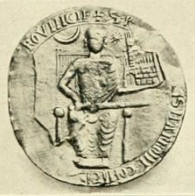 Raymond VI